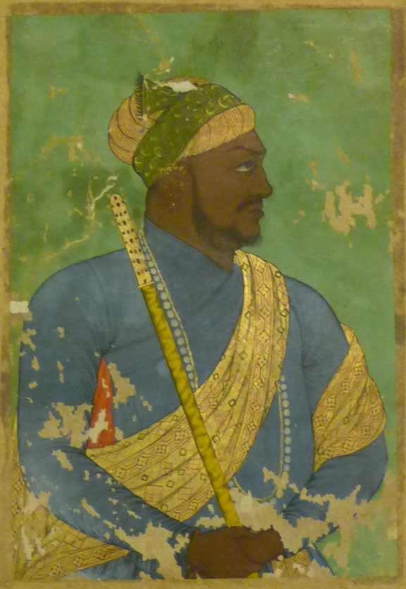 Ikhlas Khan, African prime minister of Bijapur, c. 1650, Credit: Johnson Album 26, no. 19, British Library. Public Domain.